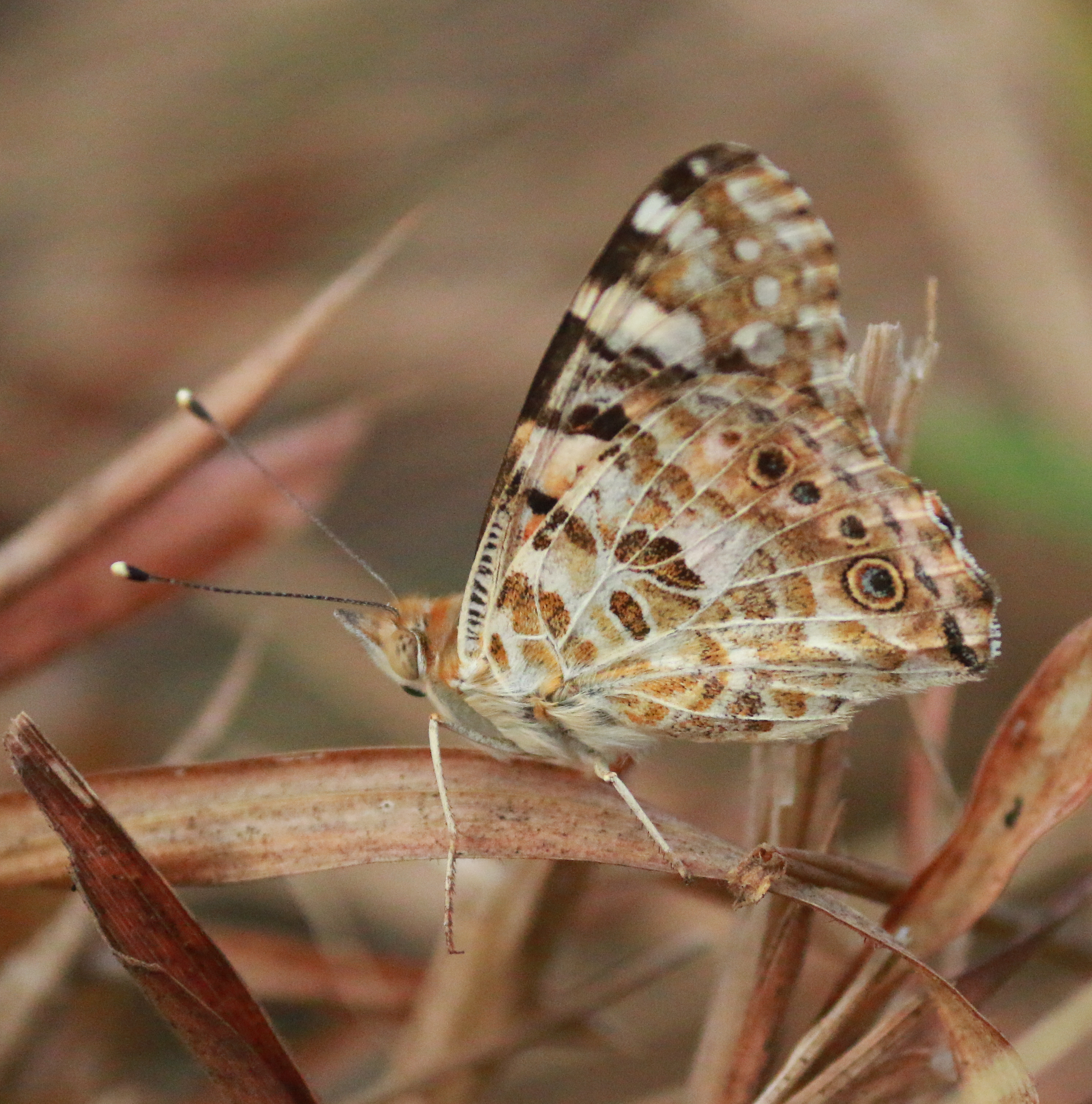 Painted lady